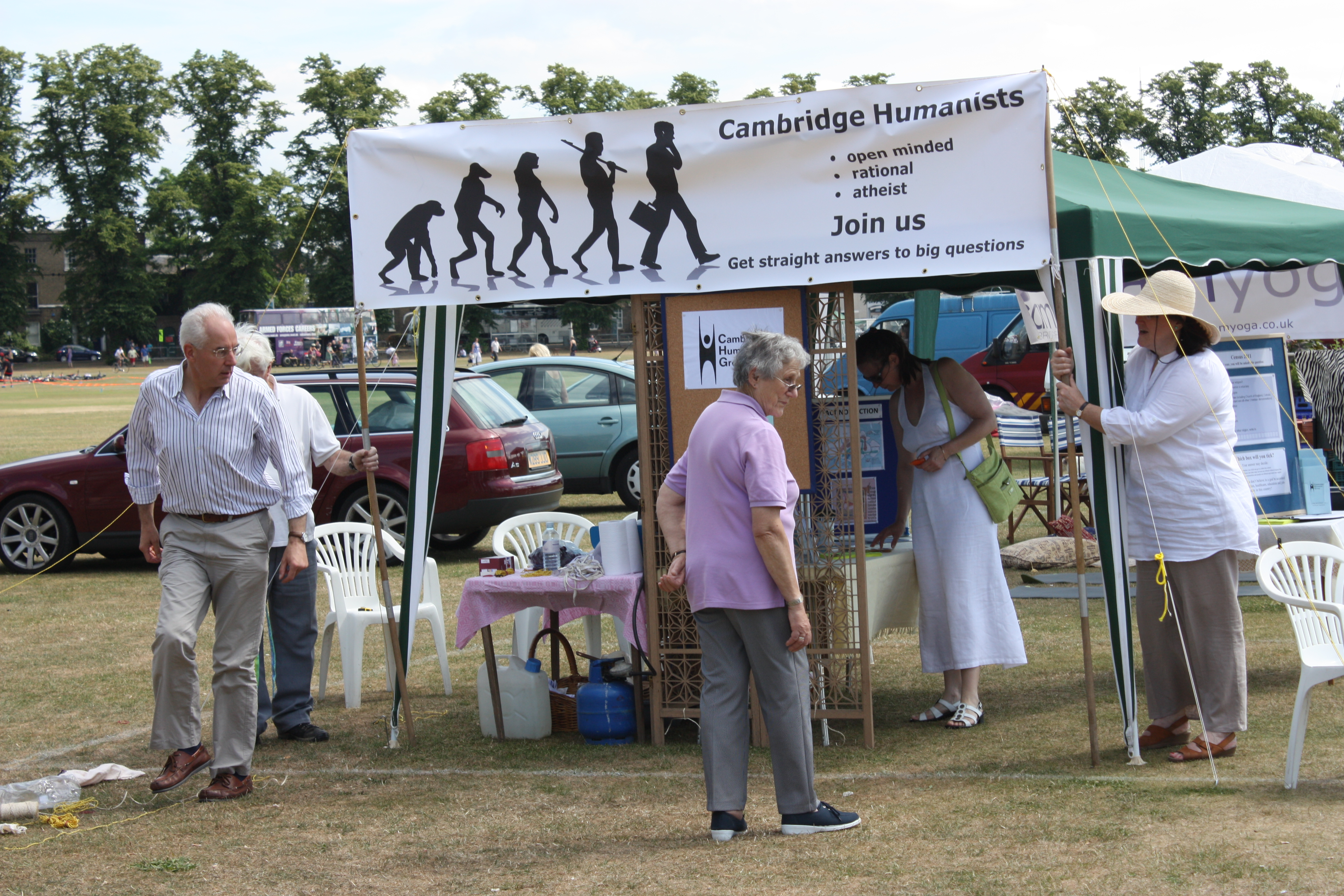 Cambridge Humanists stand, Cambridge Big Day Out, Parker's Piece, Cambridge, Cambridgeshire, England, July 2010